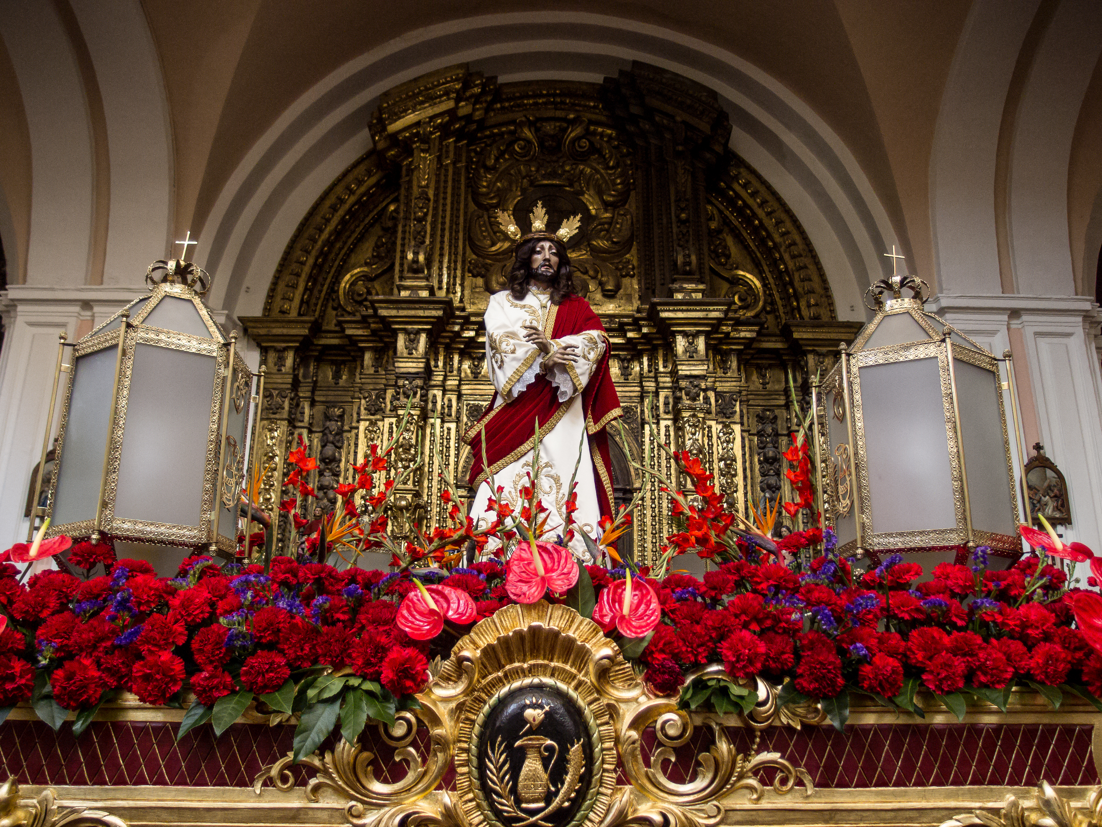 OLYMPUS DIGITAL CAMERA This is a photography of a Folklore festival in Spain (Wikidata id Q9075892).